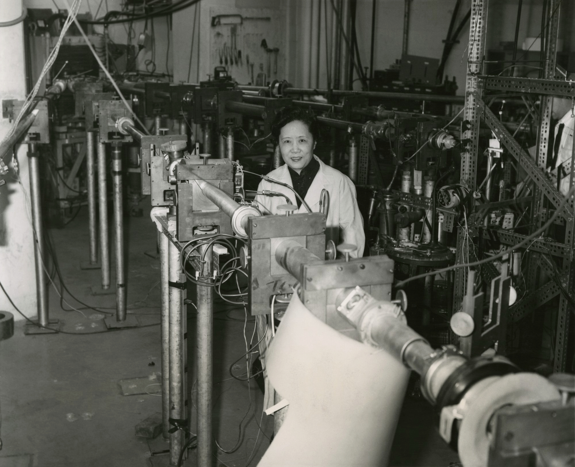 Subject: Wu, C. S (Chien-shiung) 1912-1997 Columbia University Type: Black-and-white photographs Date: 1963 3/20/1963 Topic: Physics Local number: SIA Acc. 90-105 [SIA2010-1507] Summary: In 1963, Chien-Shiung Wu (1912-1997), professor of physics at Columbia University, was already considered one of the world's foremost experimental physicists. Her experiments, with the aid of associates Y.K. Lee and L.W. Mo, confirmed the theory of sub-atomic behavior known as "weak interaction Cite as: Acc. 90-105 - Science Service, Records, 1920s-1970s, Smithsonian Institution Archivess Persistent URL:Link to data base record Repository:Smithsonian Institution Archives